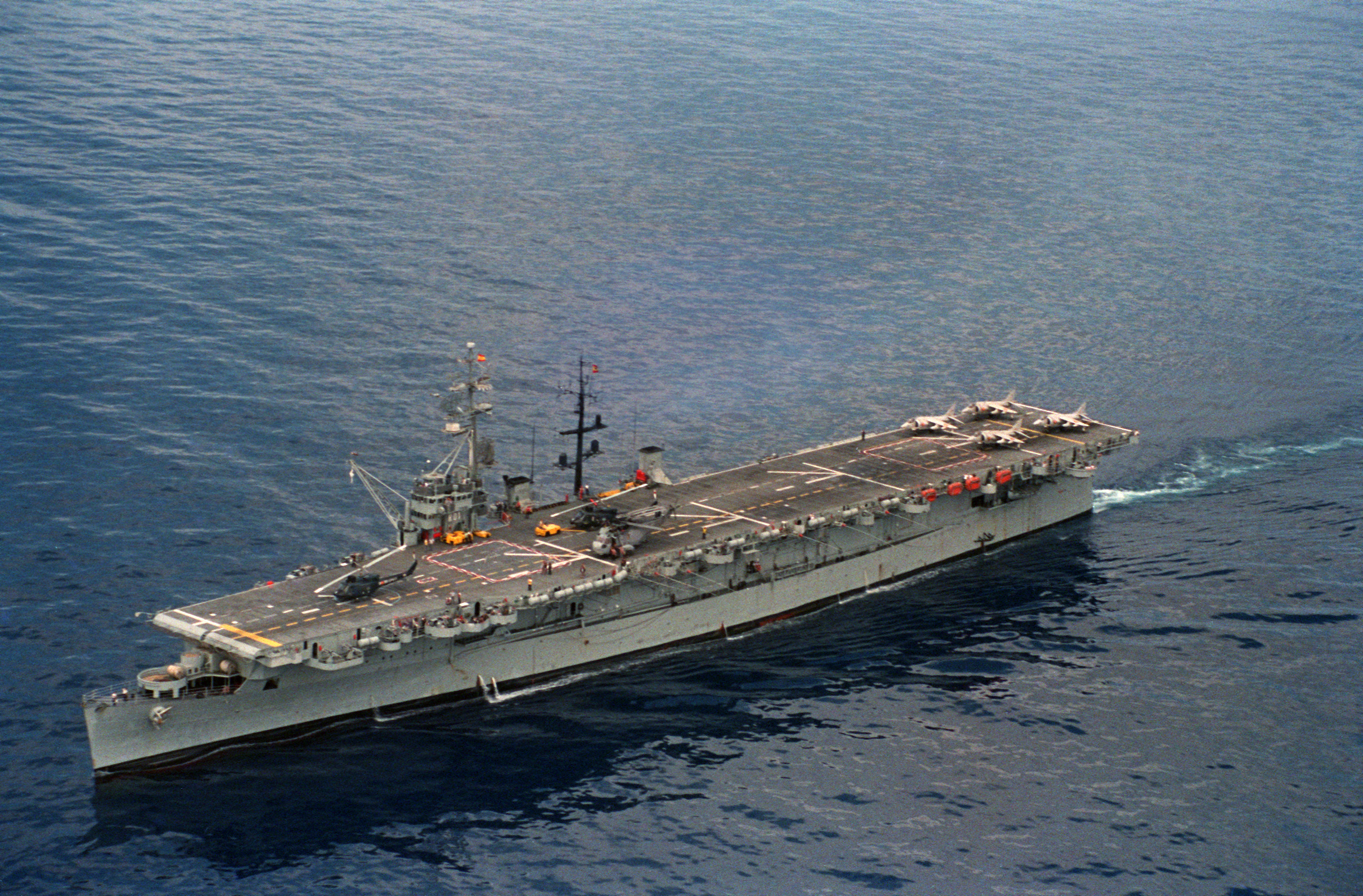 An aerial port bow view of the Spanish aircraft carrier DEDALO (R01) underway.